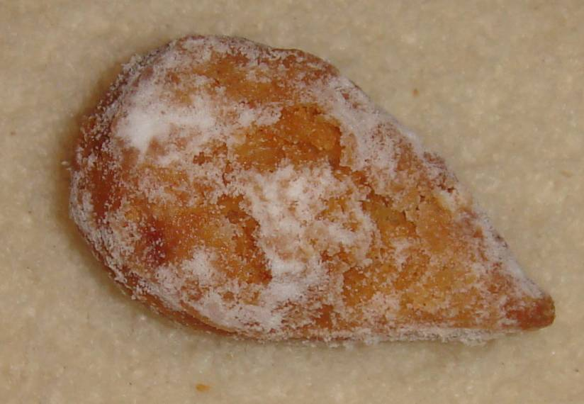 A Muzemandel, sweet cake from the Rhineland.